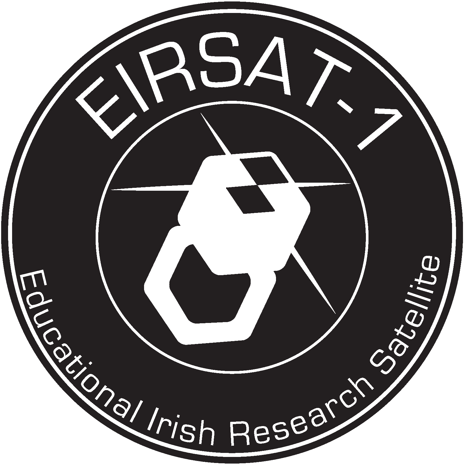 Logo for the Educational Irish Research Satellite 1.